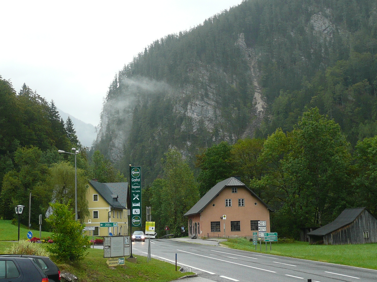 Between Stiegenwirt and An der Wacht, Erlauftalstrasse, Salza valley, Gamsstein, Palfau, Styria